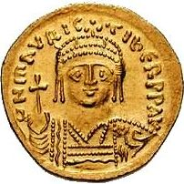 Maurice Tiberius, 582-602 AD, AV solidus (4.47 gm). Constantinople. Obv.: D N MAVRIC TIbER PP AVI, crowned, cuirassed bust facing, holding cross on globe and shield. Berk 81. Cf. DO 4 (officina Z). MIB 5. Sear 477.